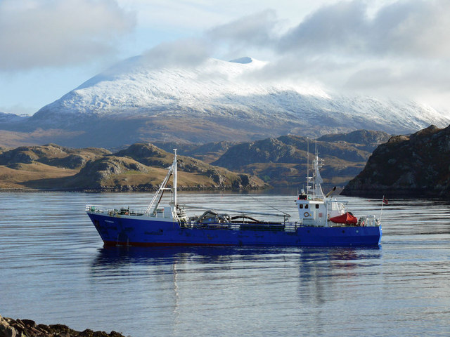 Hedda turning into Kinlochbervie Harbour The live fish carrier Hedda making the turn into Kinlochbervie harbour from Loch Inchard, with snowy Foinaven in the distance.